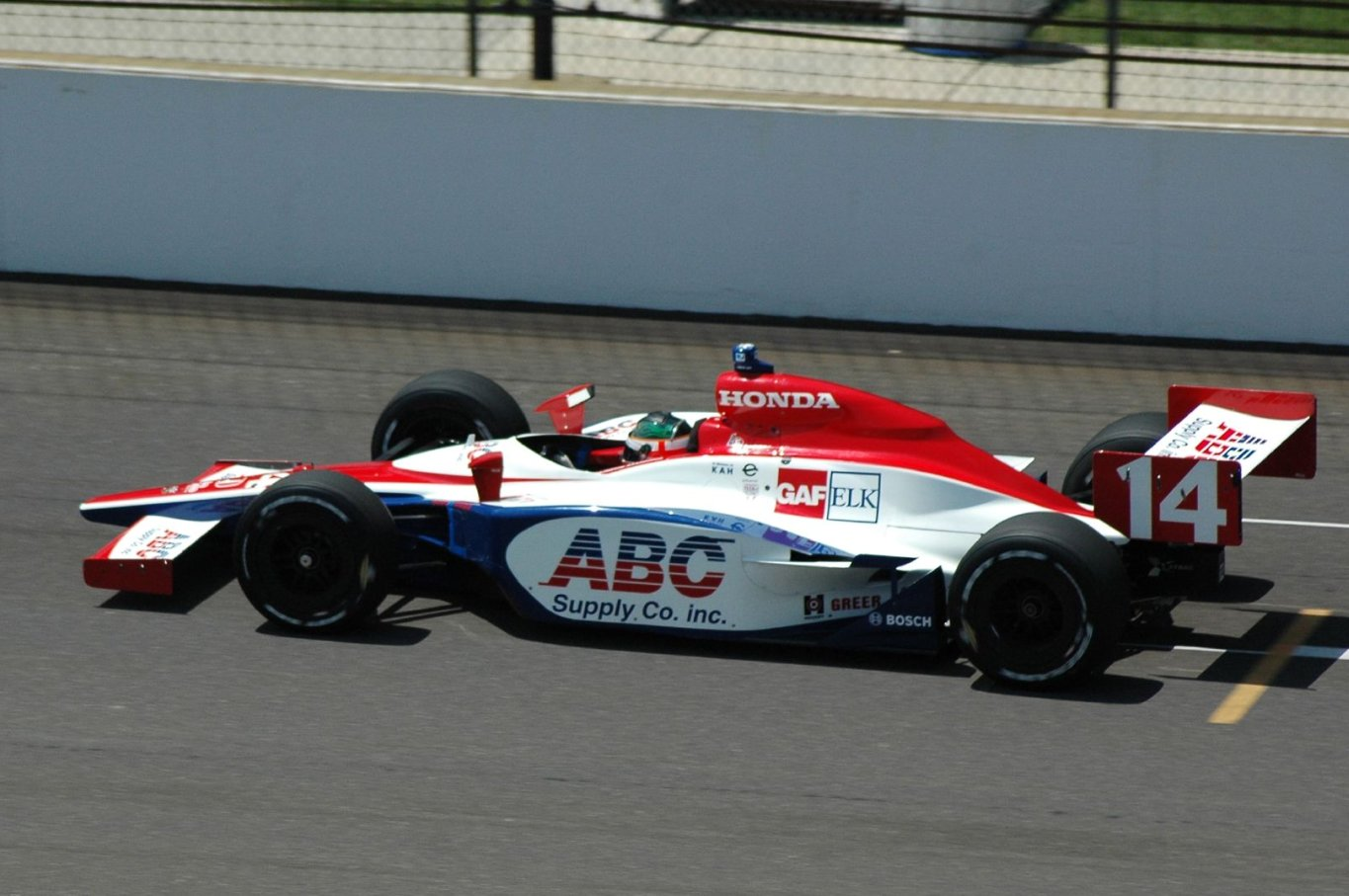 Darren Manning at Indianapolis 500 practice.